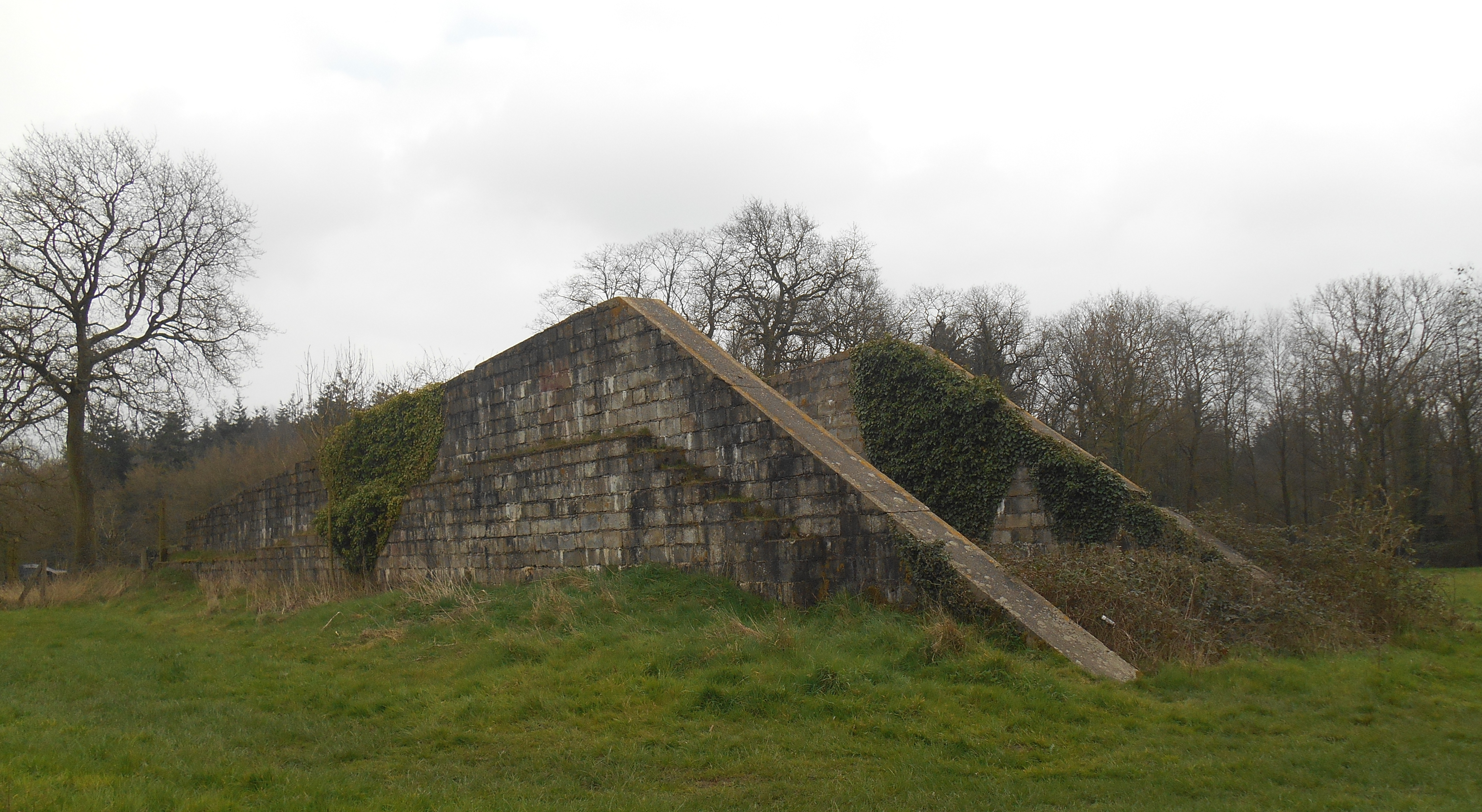 Base de lancement de V1 - Wallon-Cappel - Rampe de lancement